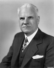 James P. Kem